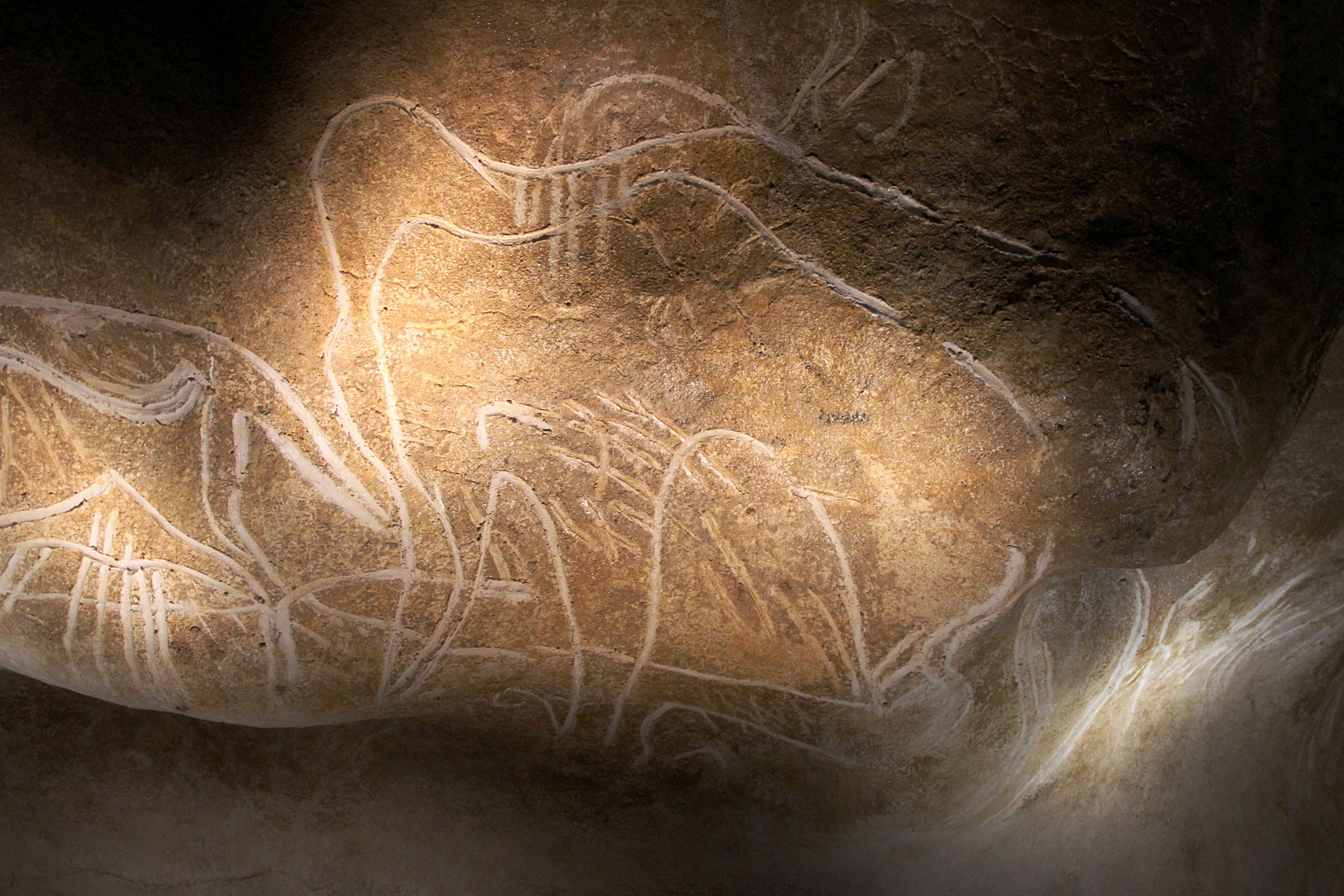 Two mammouths. Engraved by finger into the soft wall. Pont d'Arc cave (copy of the Chauvet Cave).